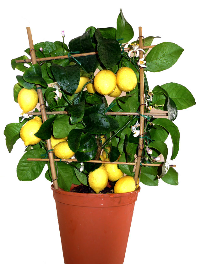 Citrus Limon in container